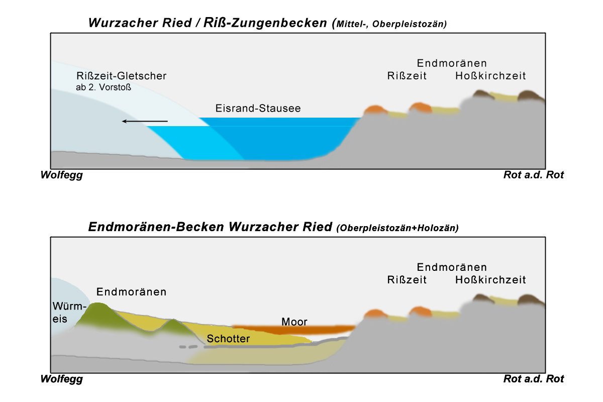 Two cross section graphics Wolfegg – Rot a.d. Rot of some Glacial series in the Alpine Foreland, showing the movements of glaciers during the Riß glaciation and theWürm glaciation. The upper graphic shows that melting water in front of the advancing or receding glacier terminus was impounded by northern terminal moraines of two ice ages. The rocky floor of the lake was drastically deepened by the second thrust of the Riss glaciation. The lower graphic shows that two thrusts of the Würm glacier piled up masses of debris as terminal moraines. Enormous amounts of sand and gravel lifted the ground level drastically. From now on the Zungenbecken was barred by southern and northern terminal moraines. With the postglacial temperature rise the flat lake area slowly silted up, as water plants invaded the lake.